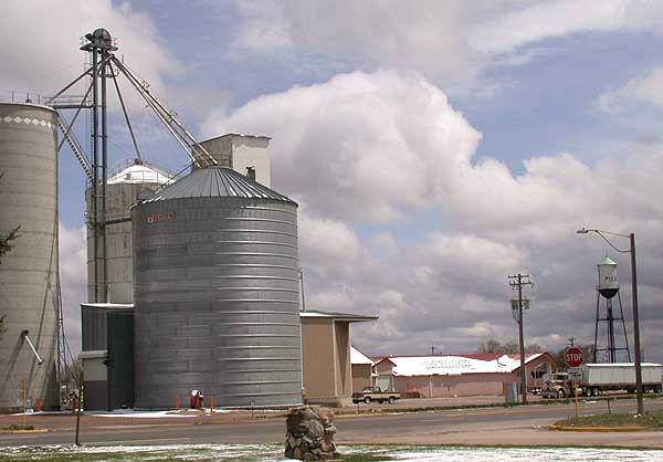 Grain elevator and tower along US85 in Pierce, Colorado.